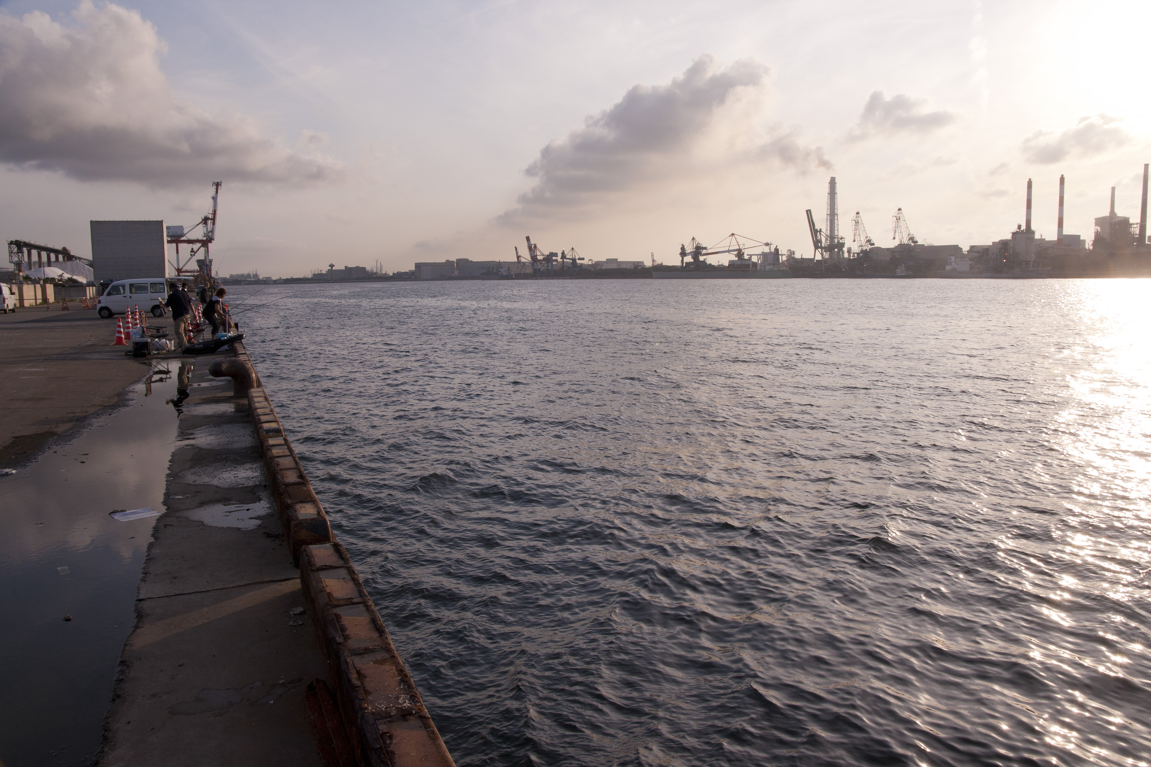 Kashima Port, Kashima and Kamisu, Ibaraki Pref., Japan